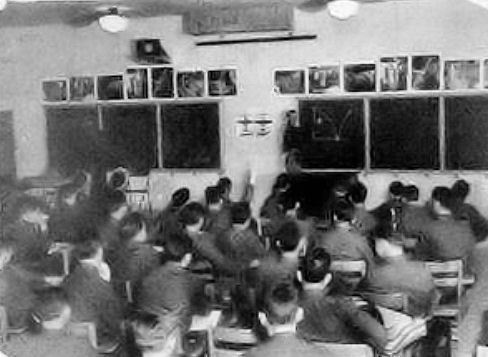 San Angelo Airmy Airfield Ground Classroom 1943